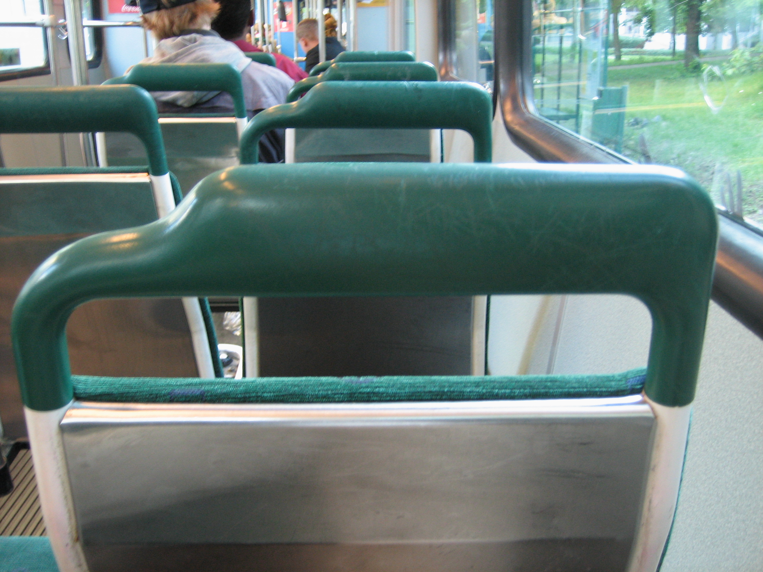 Tram seat with rounded edges and impact absorbing materials